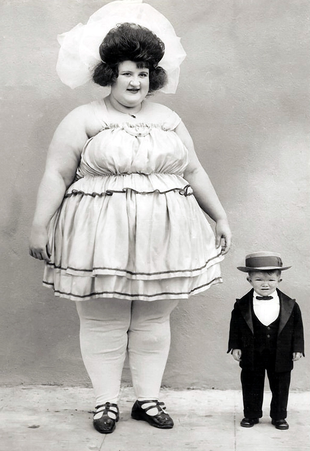 The world's largest woman in 1922 next to the (billed) world's smallest man. Clarence Chesterfield Howerton (right), also known as "Major Mite" is actually only nine years old at the time of this photograph.